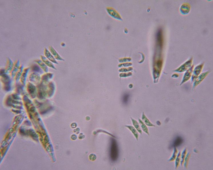 More than 7000 species!